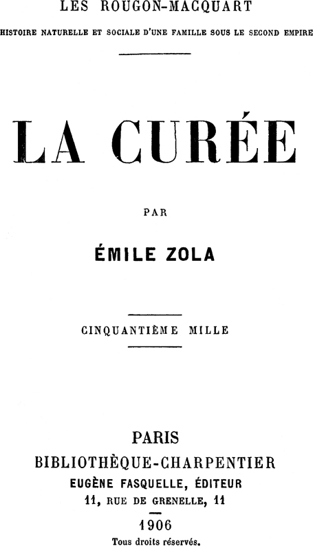 Book cover of La Curée by Émile Zola (1840-1902)